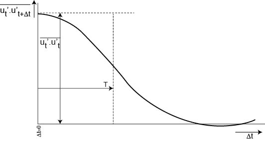 Definition of the Integral time scale in turbulence